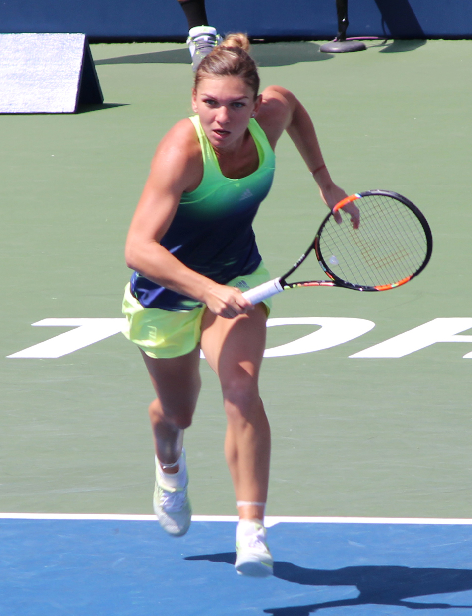 Halep vs. Errani - Rogers Cup Toronto - Aug, 15th, 2015